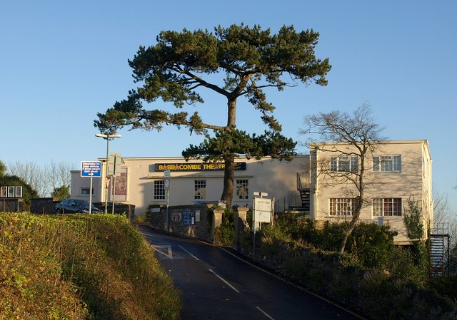 Babbacombe Theatre. A similar view to 1033037, taken from a short path that links Babbacombe Downs Road to the steep Beach Road (foreground). The building dates from 1938, replacing more temporary outdoor arrangements on the site .